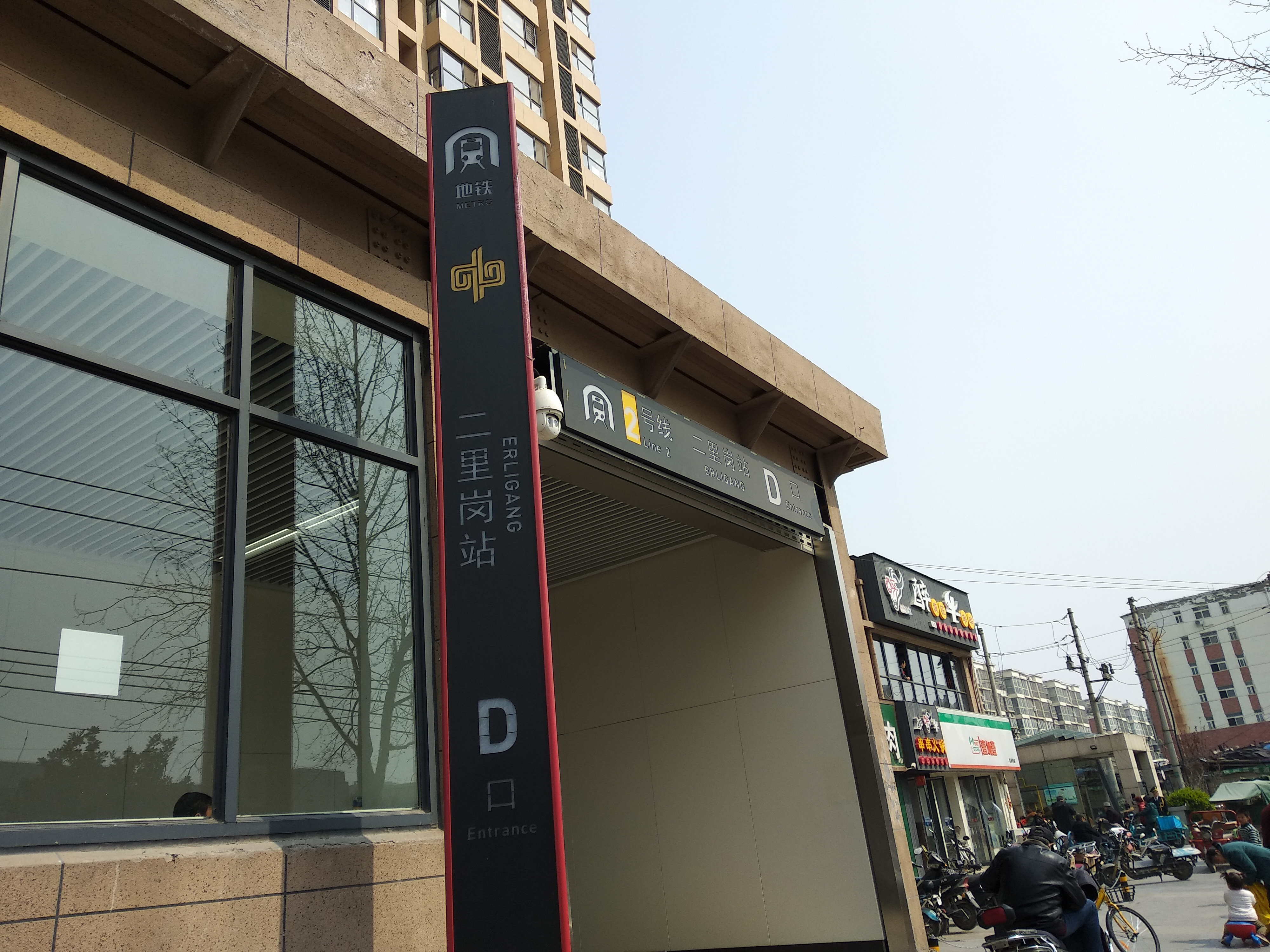 We are now at "Early God" Station.